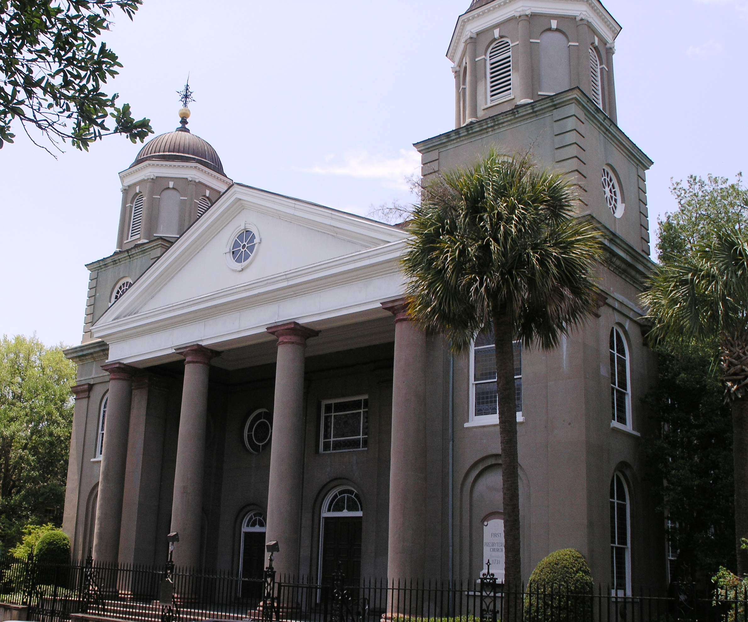 Photo in or around Charleston, South Carolina